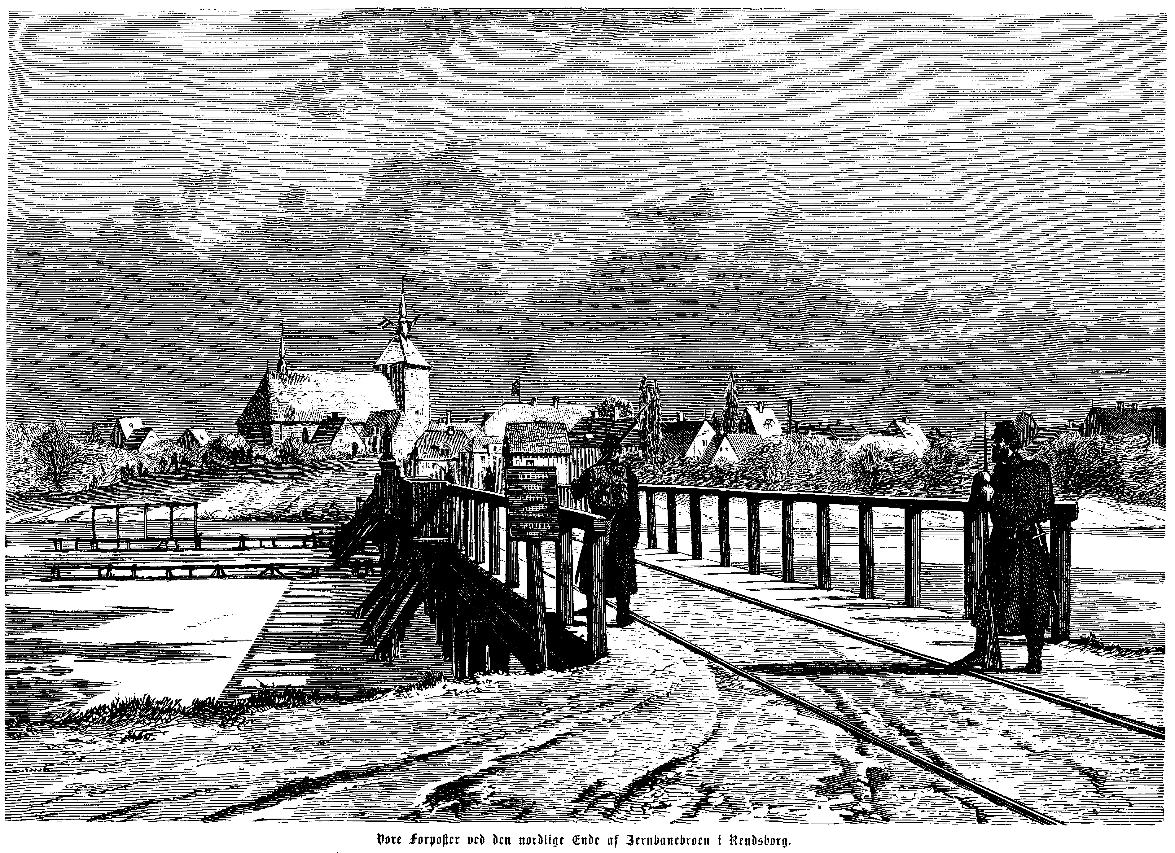 Danish outposts at the northern end of the railway bridge across the Eider. The distant town is Rendsburg, held by German forces that guard the southern end of the bridge. Note the Schleswig-Holsteinish flag flying over Rendsburg. Contemporary illustration of the 1864 German-Danish War.